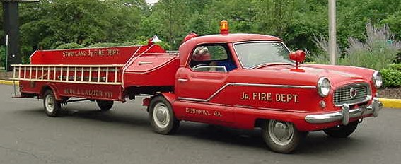 1957 Metropolitan (by American Motors Corporation) converted into a Ladder Fire Truck. Part of the Junior Fire Department in Bushkill, Pennsylvania.